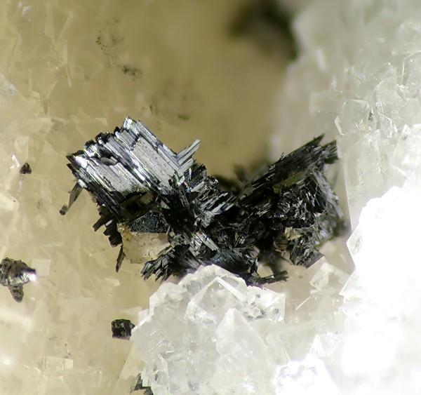 Lengenbachite Locality: Lengenbach Quarry, Im Feld (Imfeld; Feld; Fäld), Binn Valley, Wallis (Valais), Switzerland (Locality at ) Picture width 3 mm. Collection and photograph Christian Rewitzer